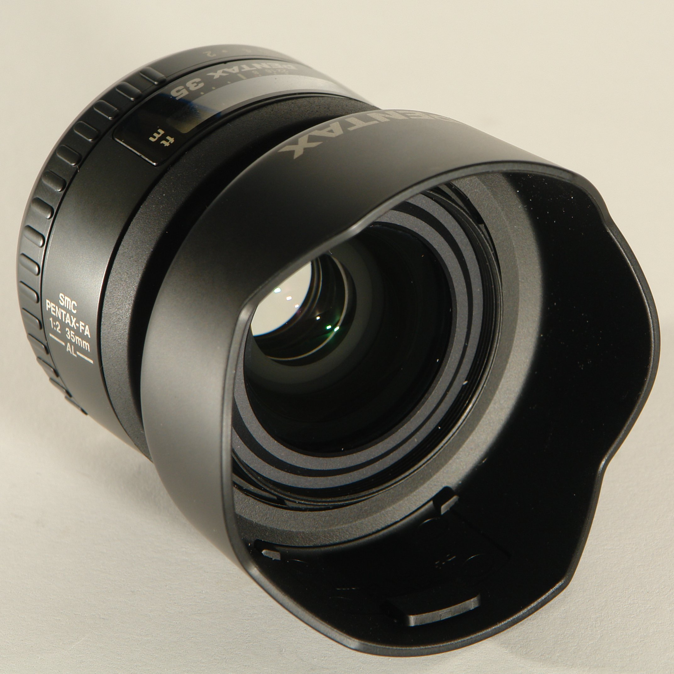 Pentax SMC FA 35mm f/2 lens for K-mount